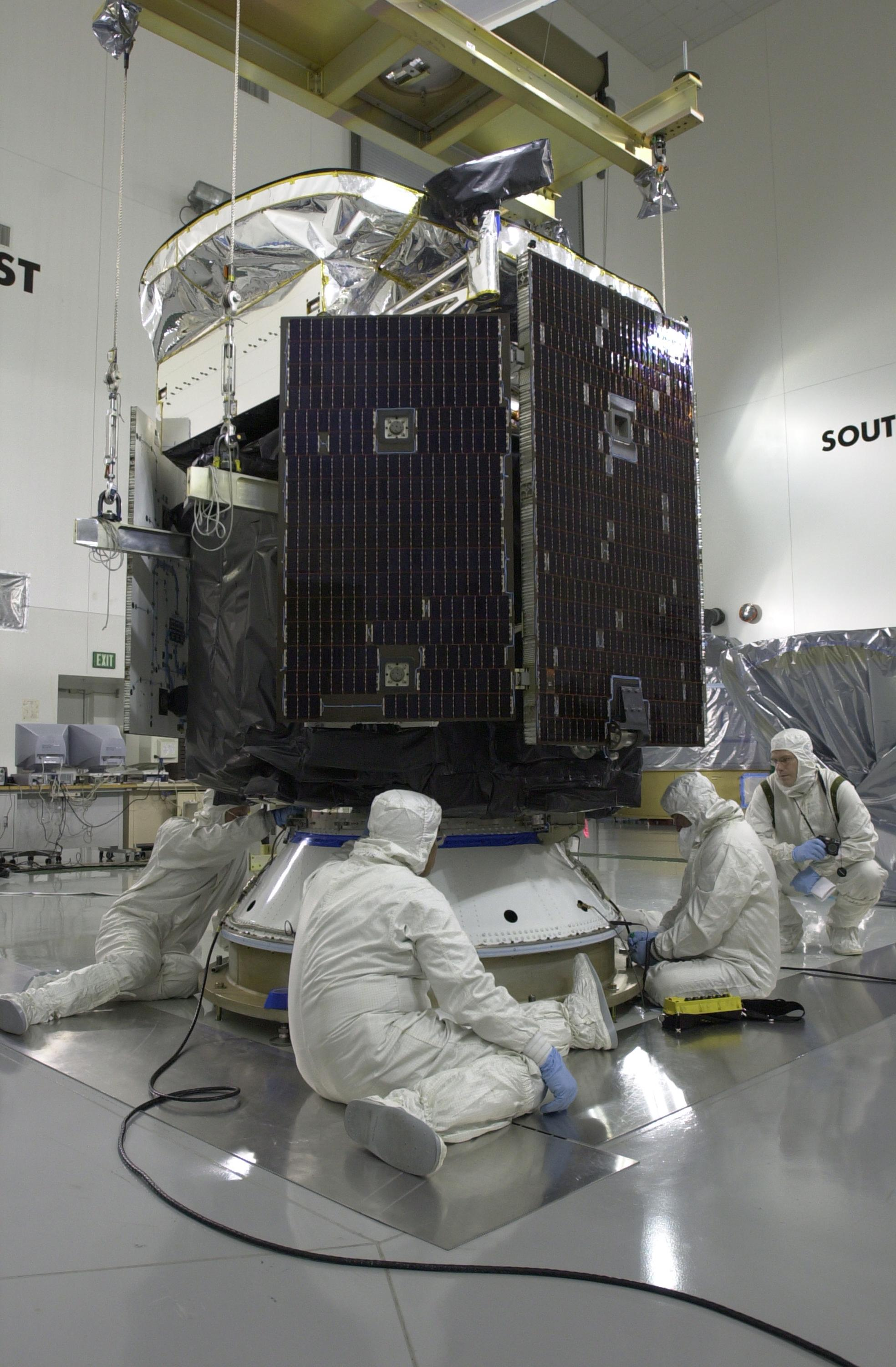 Technicians secure NASA's CloudSat spacecraft to a Delta payload attach fitting in a clean room at Vandenberg Air Force Base, Calif. CALIPSO stands for Cloud-Aerosol Lidar and Infrared Pathfinder Satellite Observation. CALIPSO and CloudSat are highly complementary satellites and will be launched together. They will provide never-before-seen 3-D perspectives of how clouds and aerosols form, evolve, and affect weather and climate. CALIPSO and CloudSat will fly in formation with three other satellites in the A-train constellation to enhance understanding of our climate system. Launch of CALIPSO/CloudSat aboard a Boeing Delta II rocket is scheduled for 3:01 a.m. PDT Sept. 29.